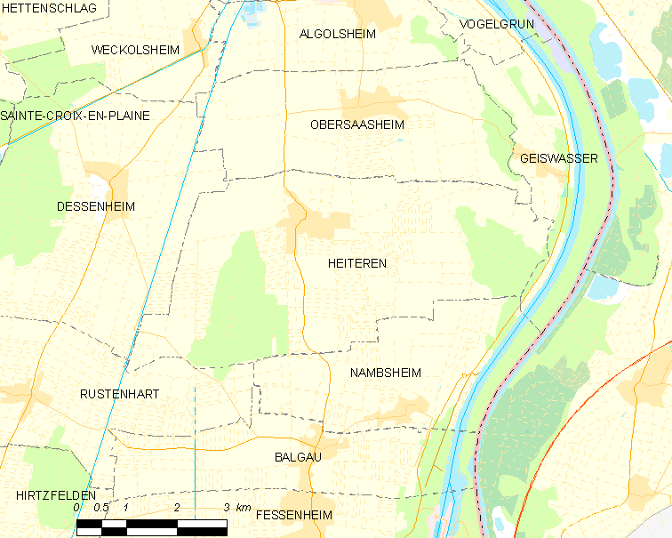 Map of French municipality